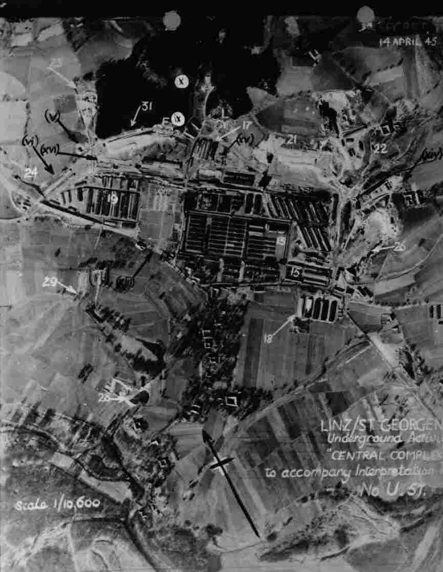 Aerial view of the Bergkristall complex (Gusen II sub-camp of Konzentrationslager Mauthausen-Gusen)